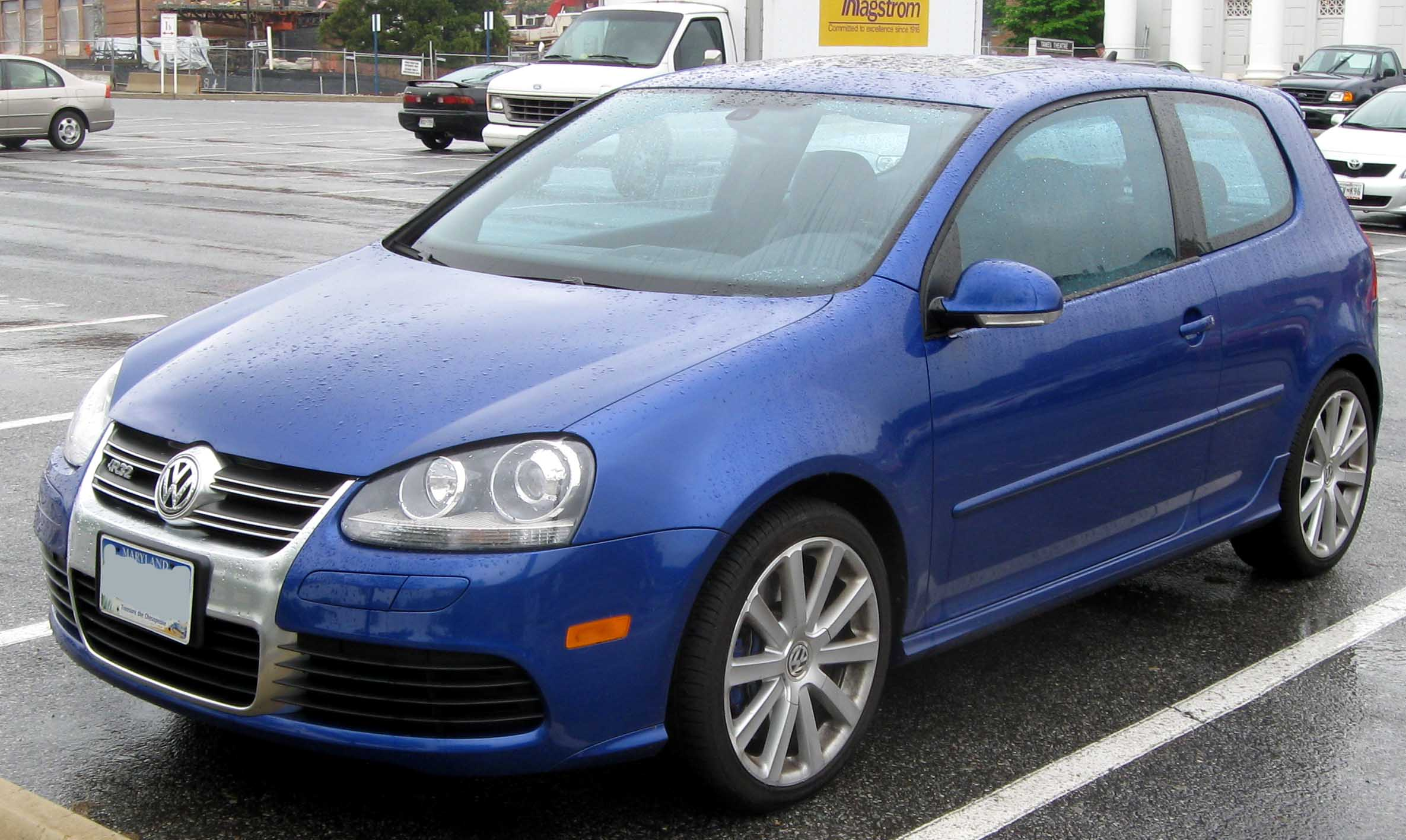 Volkswagen R32 photographed in College Park, Maryland, USA.